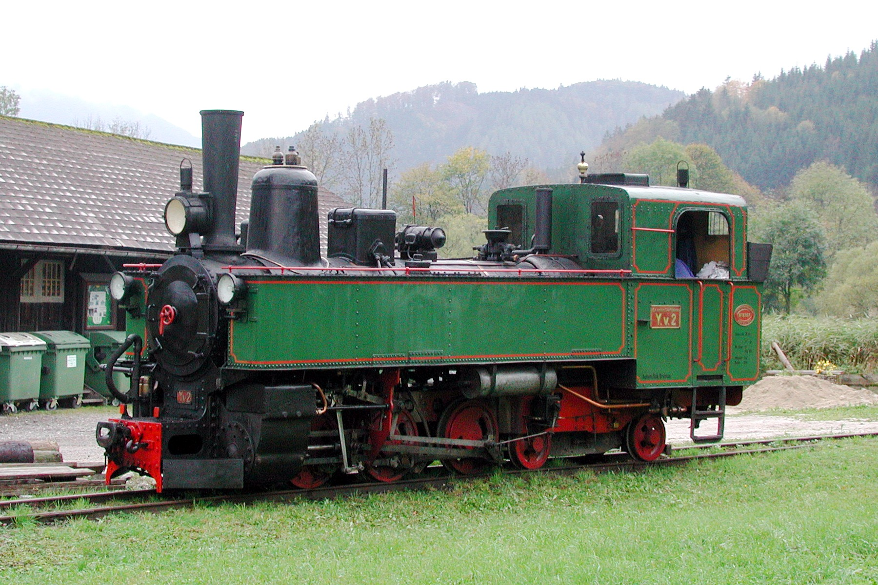 preserved narrow gauge 0-6-4 Yv.2 in Lunz am See station on the Ybbstalbahn, Lower Austria